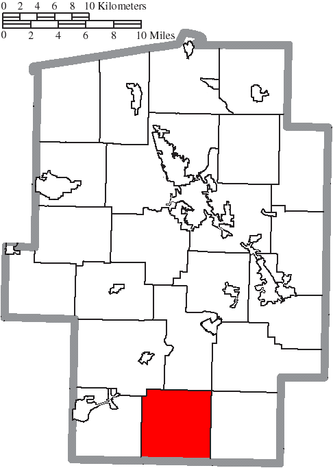 Map of the municipal and township boundaries of Tuscarawas County, Ohio, United States, as of the 2000 census, with the location of Washington Township highlighted. Township borders are shown only in unincorporated areas in order to differentiate incorporated and unincorporated areas more clearly.